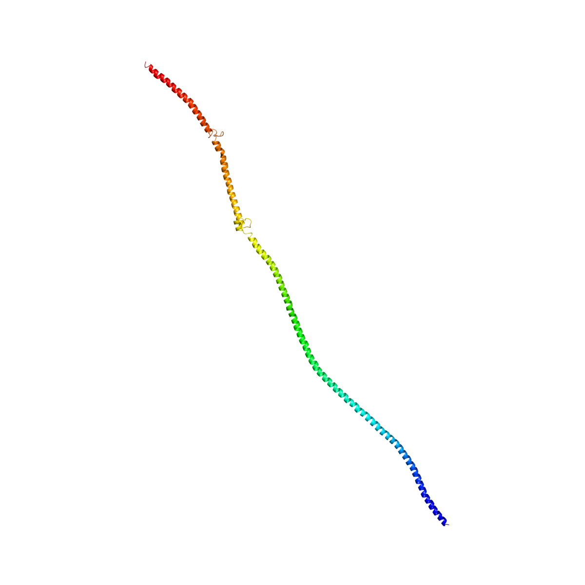 KIAA0802's 3d structure predicted by Phyre2. Structure is based on the crystal structure of tropomyosin at 7 angstrom resolution, with 12% identity. 283 residues match, in the CCDC containing N-terminal region.